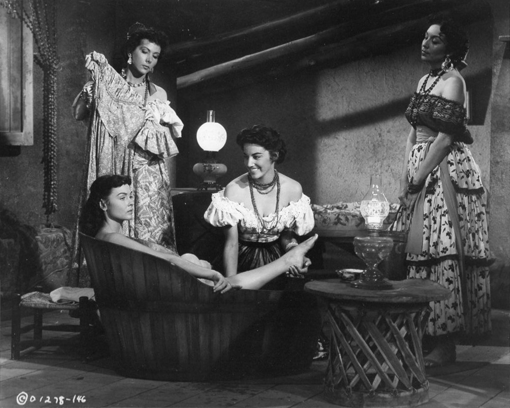 Publicity photo of Donna Reed and Alma Beltran in the 1953 Colombia Pictures Western Gun Fury.